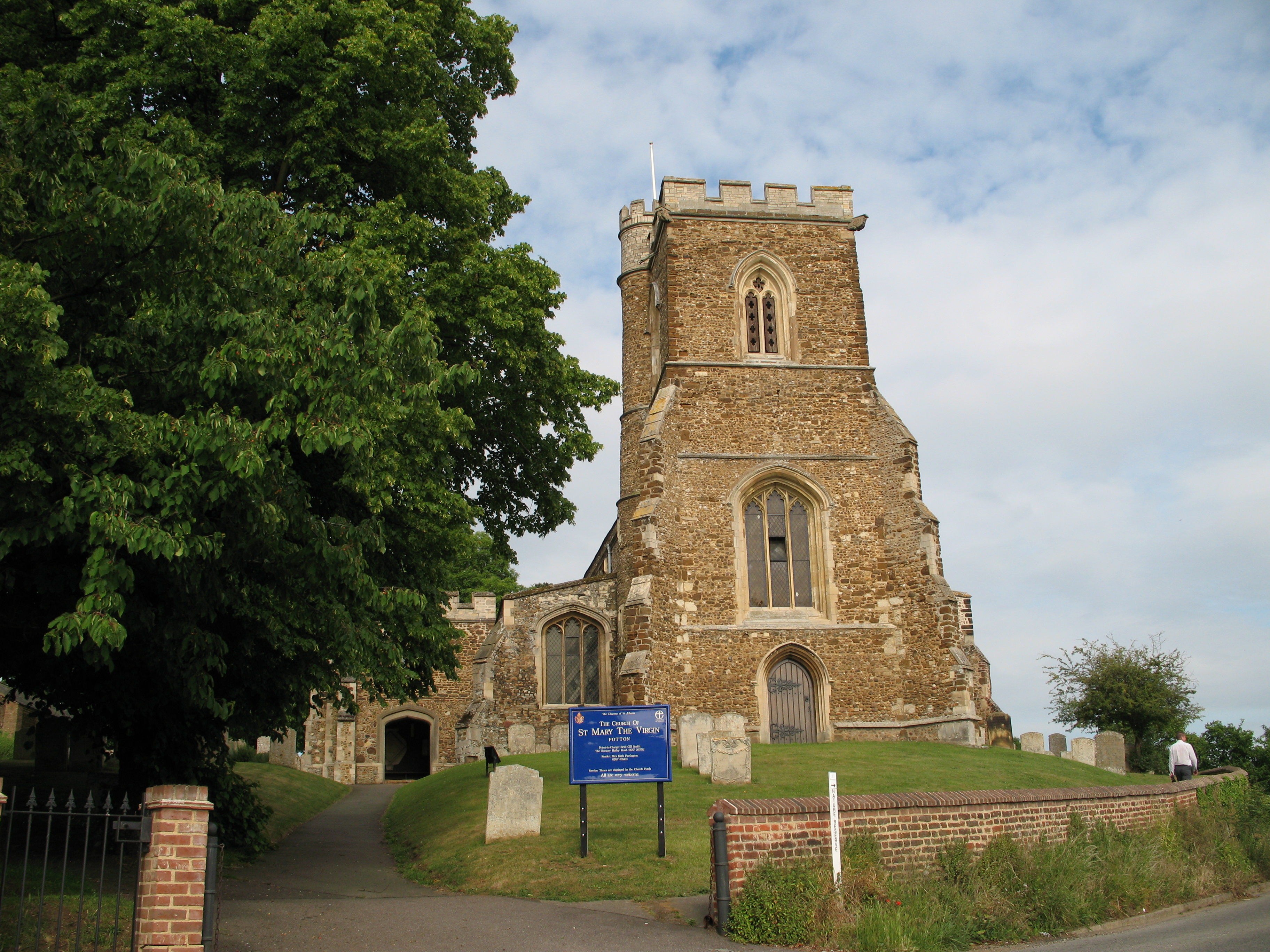 St Mary the Virgin parish church, Potton, Bedfordshire, seen from the west